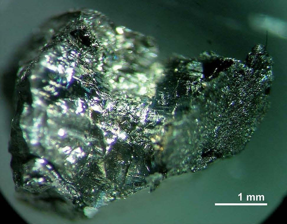 LiGaTe2 crystal